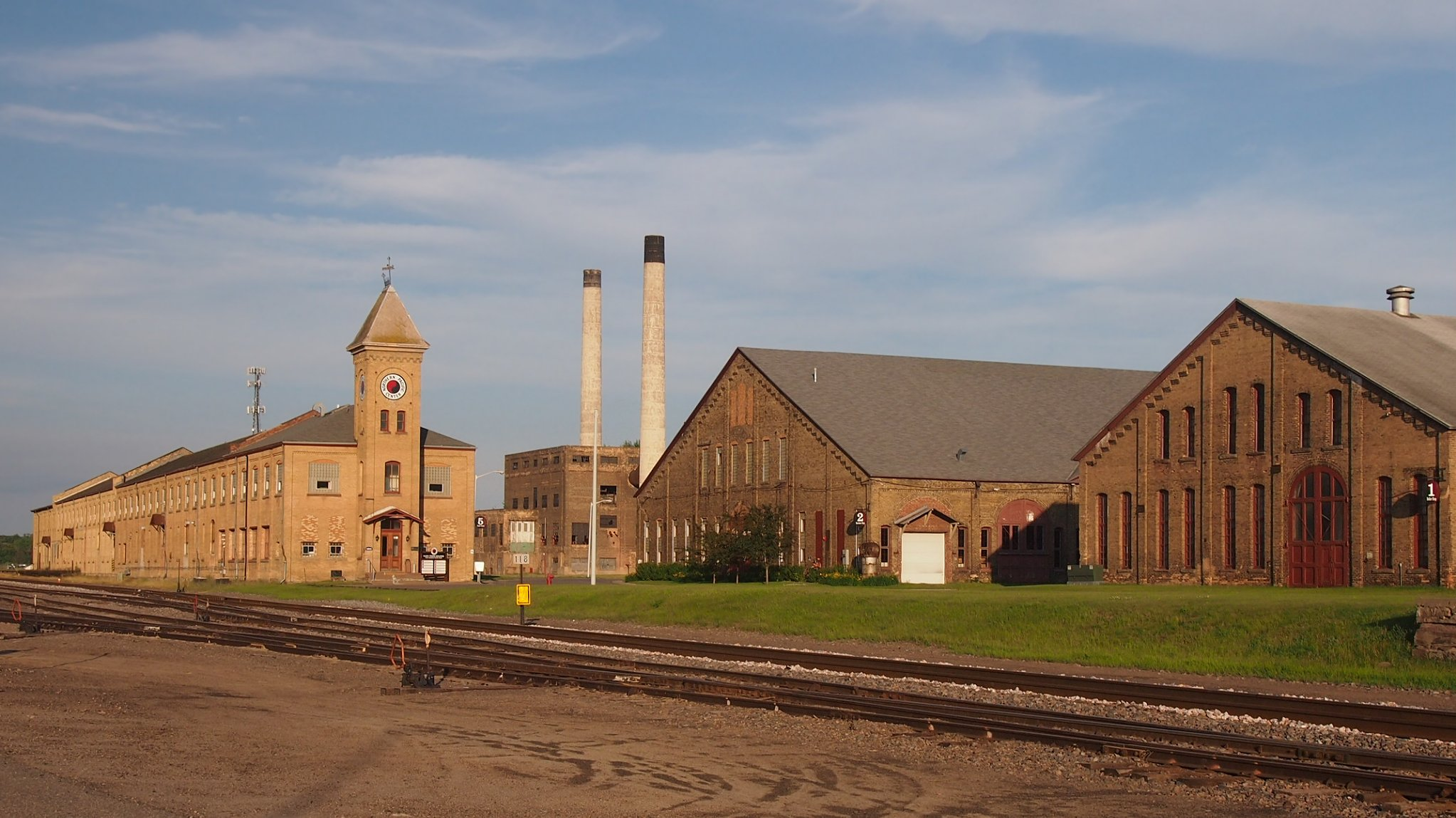 Northern Pacific Railroad Shops Historic District, Brainerd, Minnesota, USA. Viewed from the northwest.